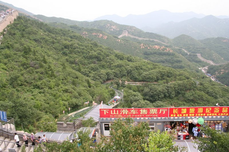 For more pictures and videos of the Great Wall, please visit here.